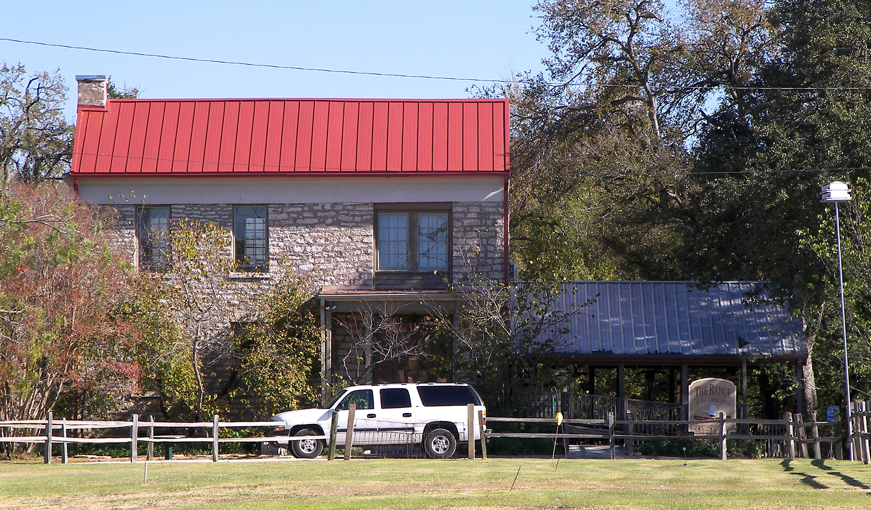 The Barton House in Salado, Texas, United States. The masonry house built in 1866 was listed on the National Register of Historic Places on April 5, 1983.